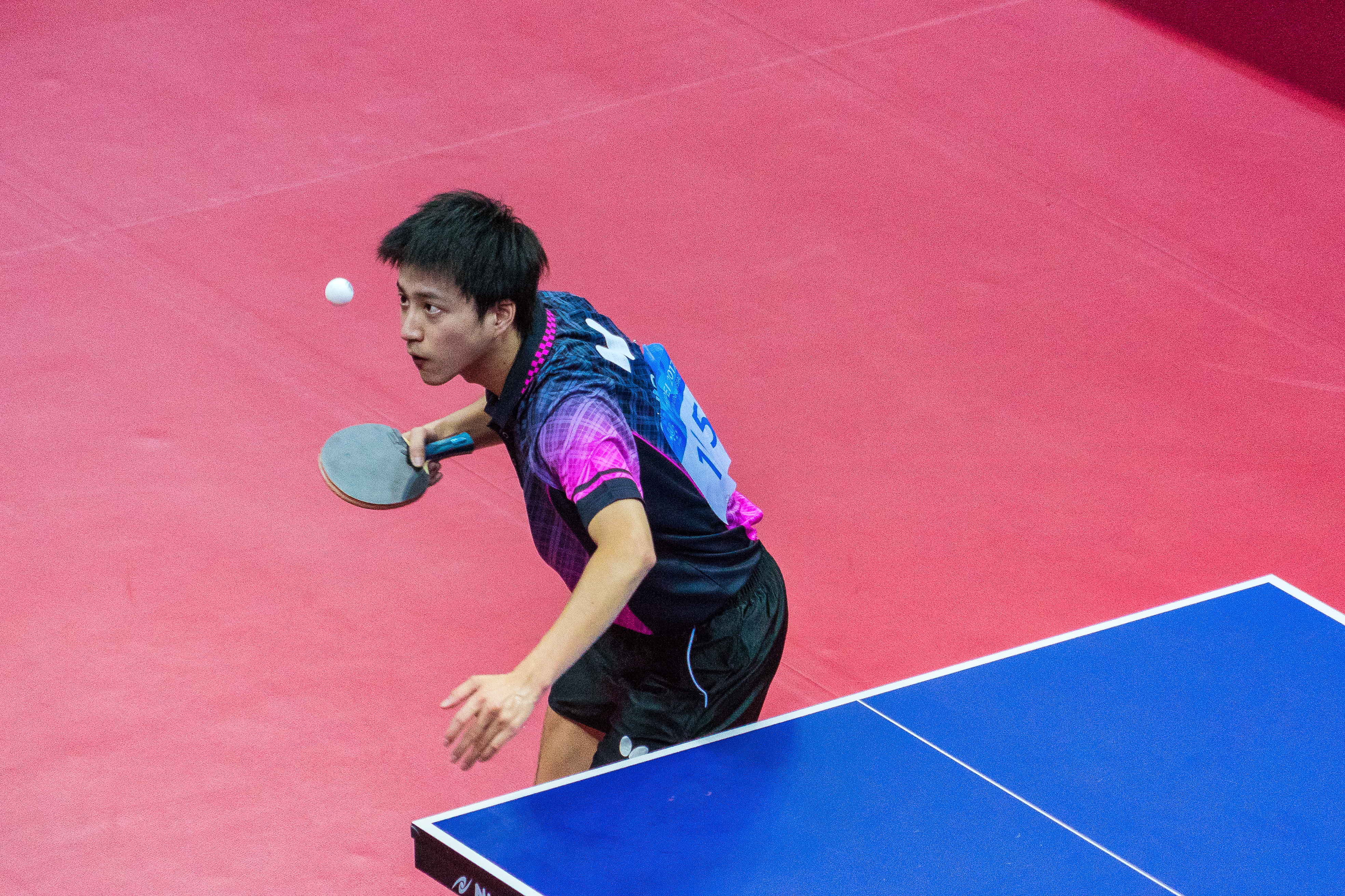 2017 Taipei Summer Universiade